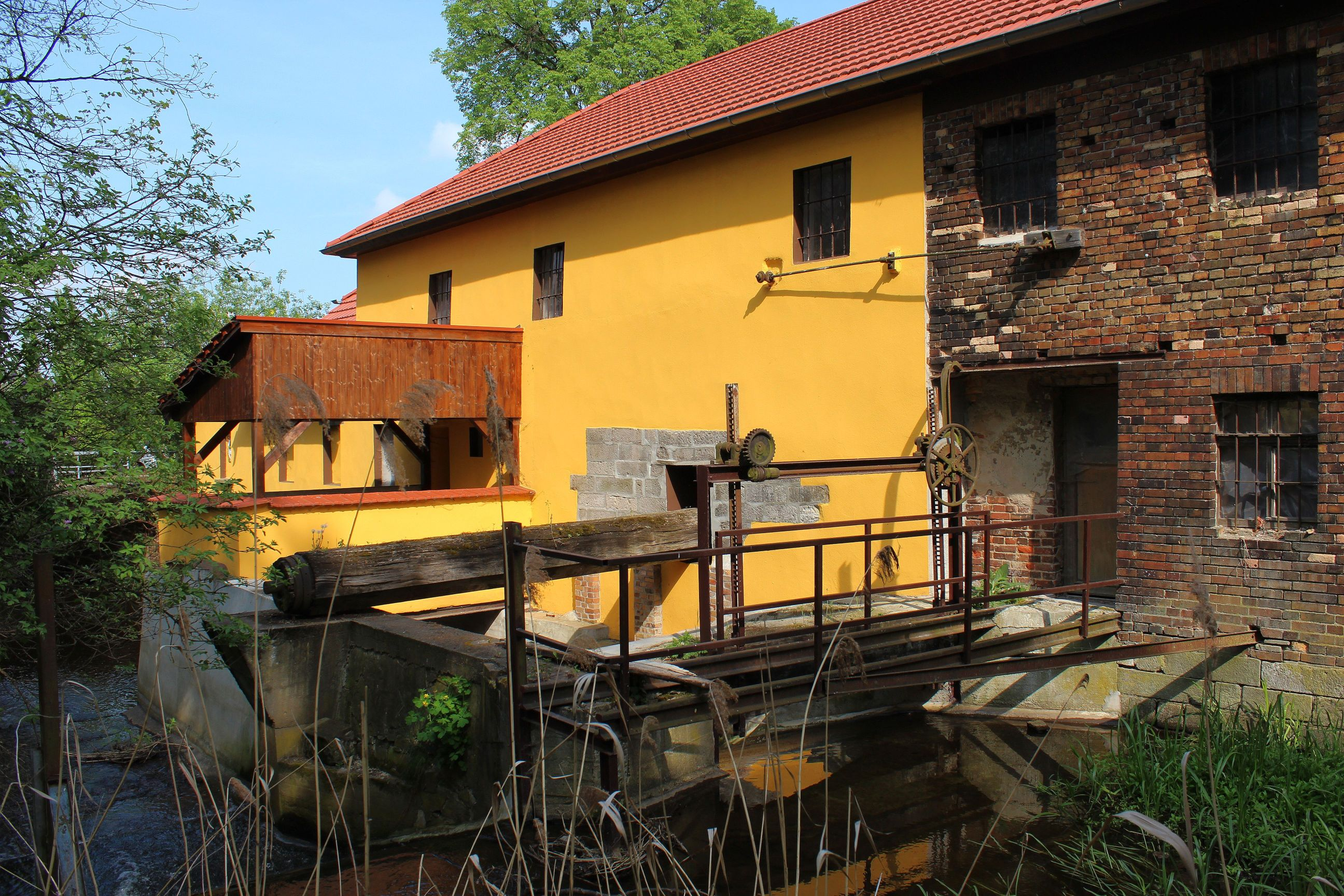 Watermill on the river Große Röder in Saathain.